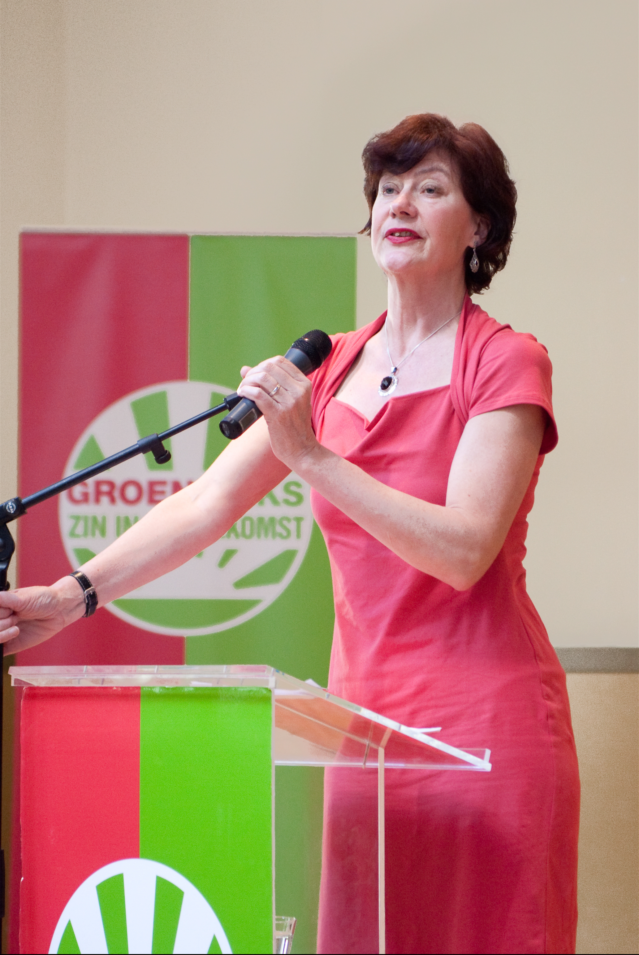 Marijke Vos, former member of the Dutch Parliament for the GreenLeft and alderwoman in Amsterdam